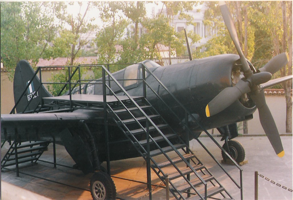 A Curtiss SB2C-5 Helldiver (U.S. Navy BuNo 83321) of the Hellenic Air Force at the Athens War Museum on 30 July 1992. The aircraft was later transferred to Hellenic Air Force Museum in 1997.